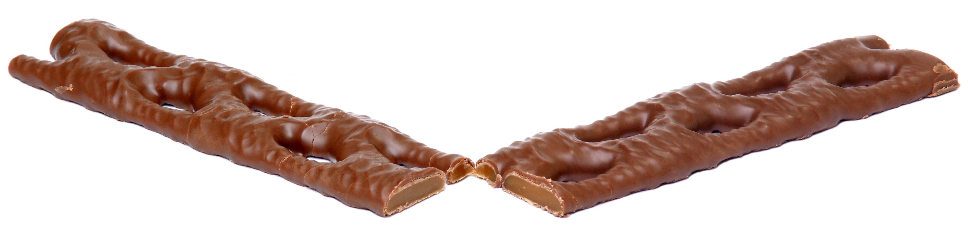 A Cadbury Curly Wurly candy bar, shown split in half.